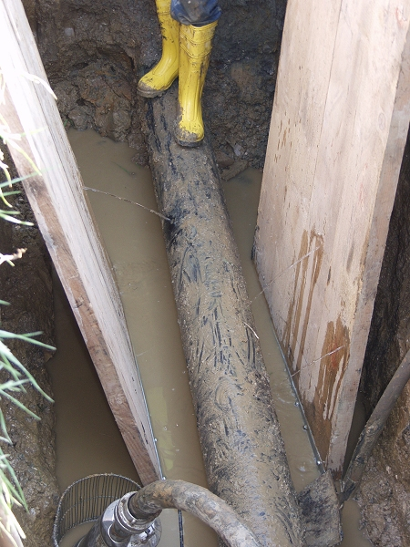 Pipe burst